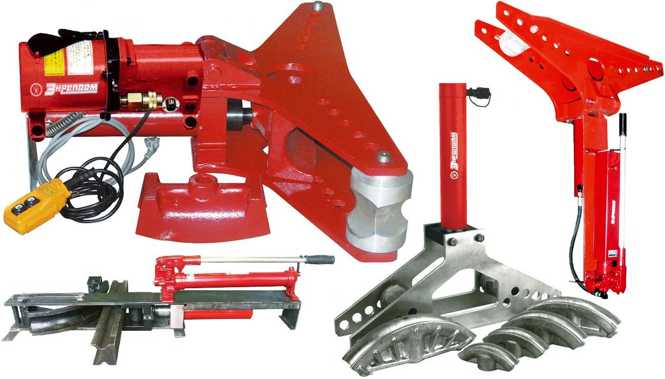 Tube bending